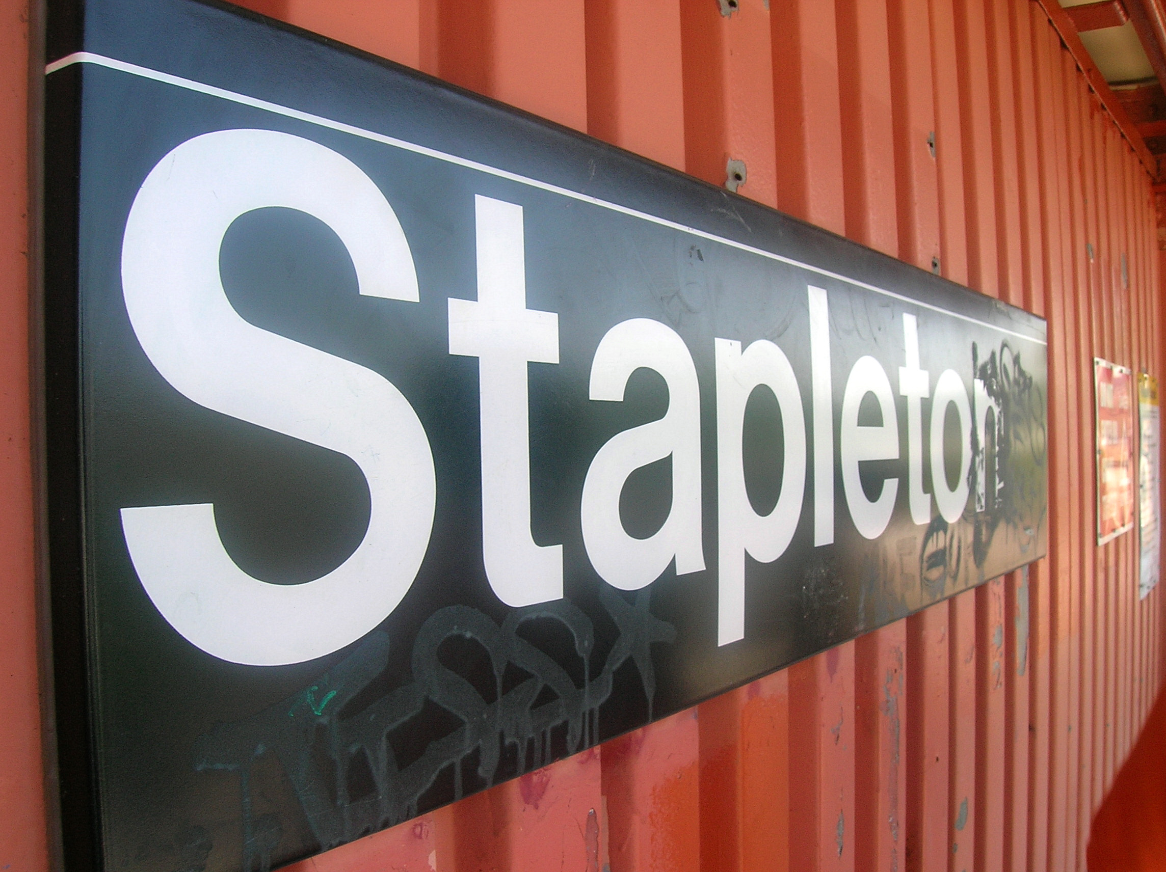 Stapleton (Staten Island Railway station) sign